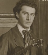 Alexander Schaichet